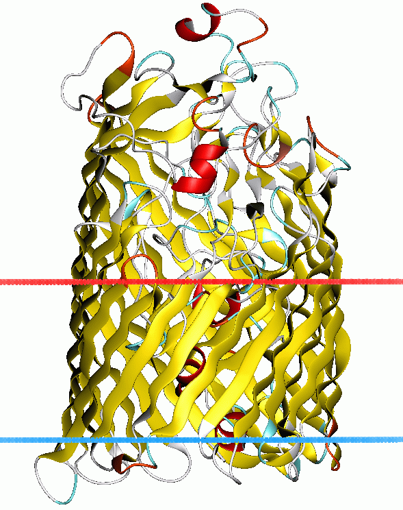 Protein image from OPM database